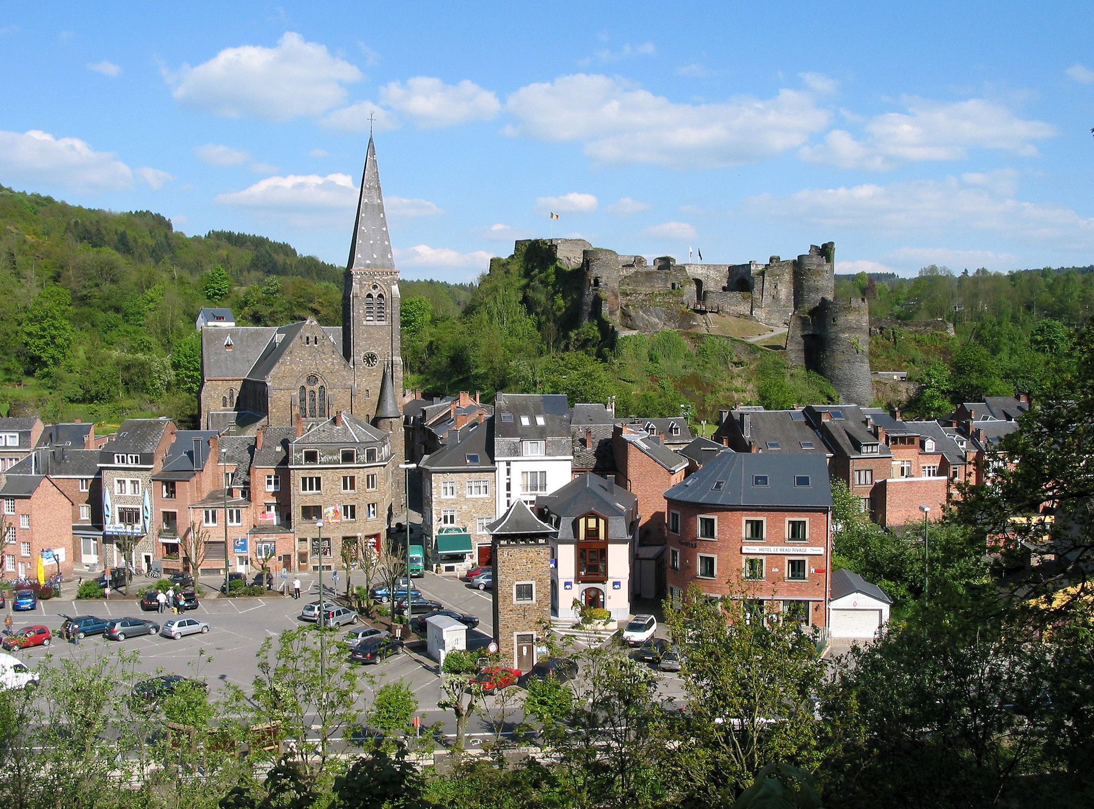 La Roche-en-Ardenne (Belgium), the alstad.